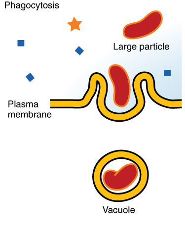 Caption: Endocytosis is a form of active transport in which a cell envelopes extracellular materials using its cell membrane. In phagocytosis, which is relatively nonselective, the cell takes in a large particle. URL: Version 8.25 from the Textbook OpenStax Anatomy and Physiology Published May 18, 2016 Other versions: English original Phagocytosis en Phagocytosis cleaned Pinocytosis en Pinocytosis cleaned RME en RME cleaned 0309 Three Forms of Endocytosis cleaned.png All cleaned